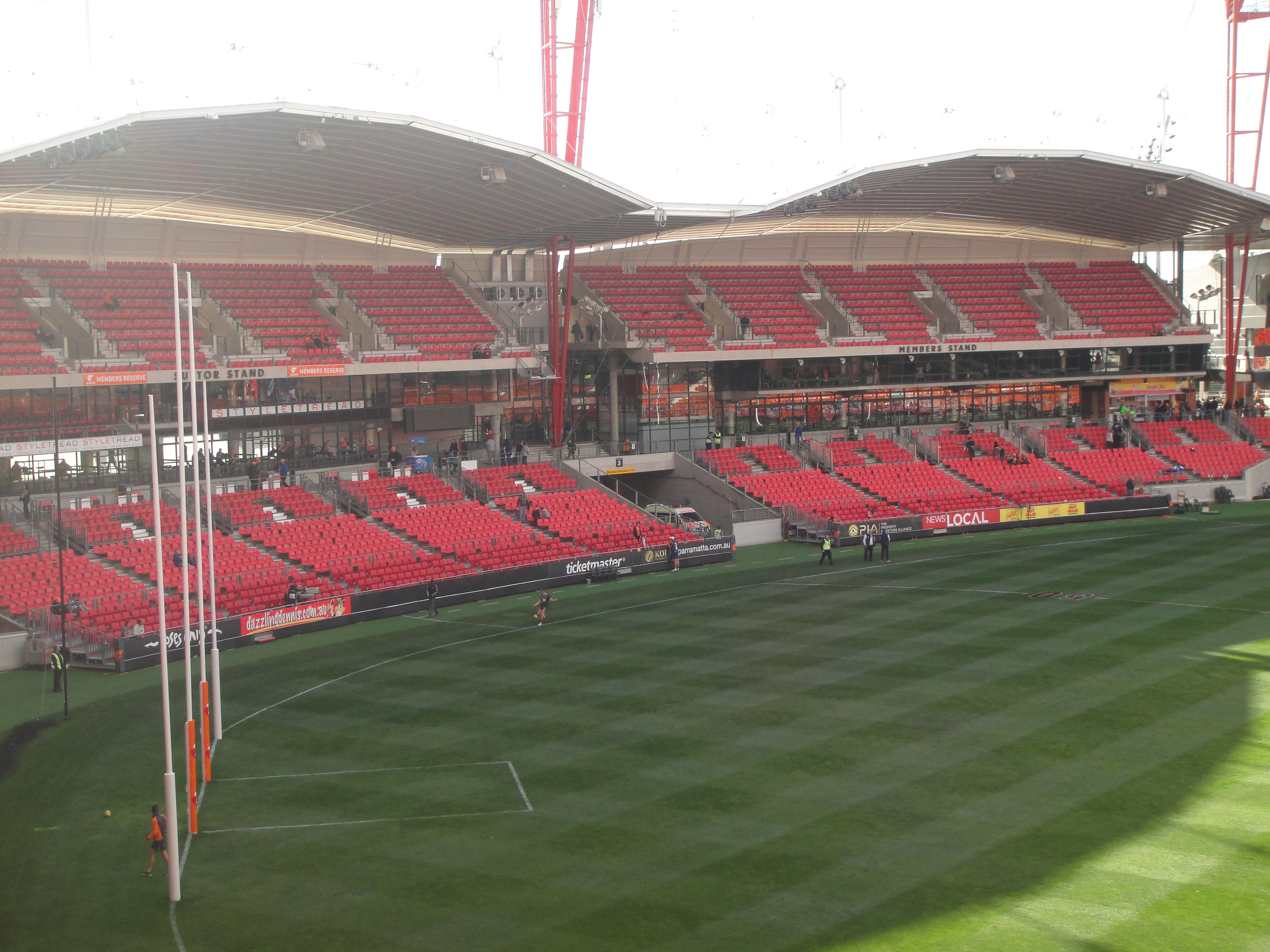 The southern end of Skoda Stadium in Sydney.